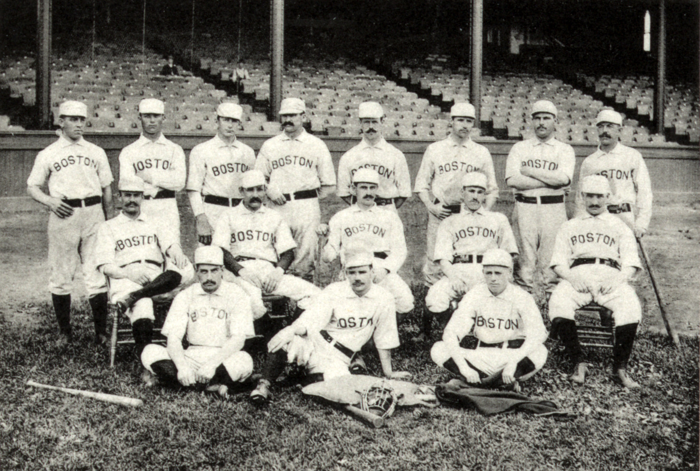 1888 Boston Beaneaters team photo